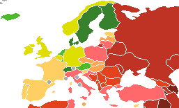 Derivative work of